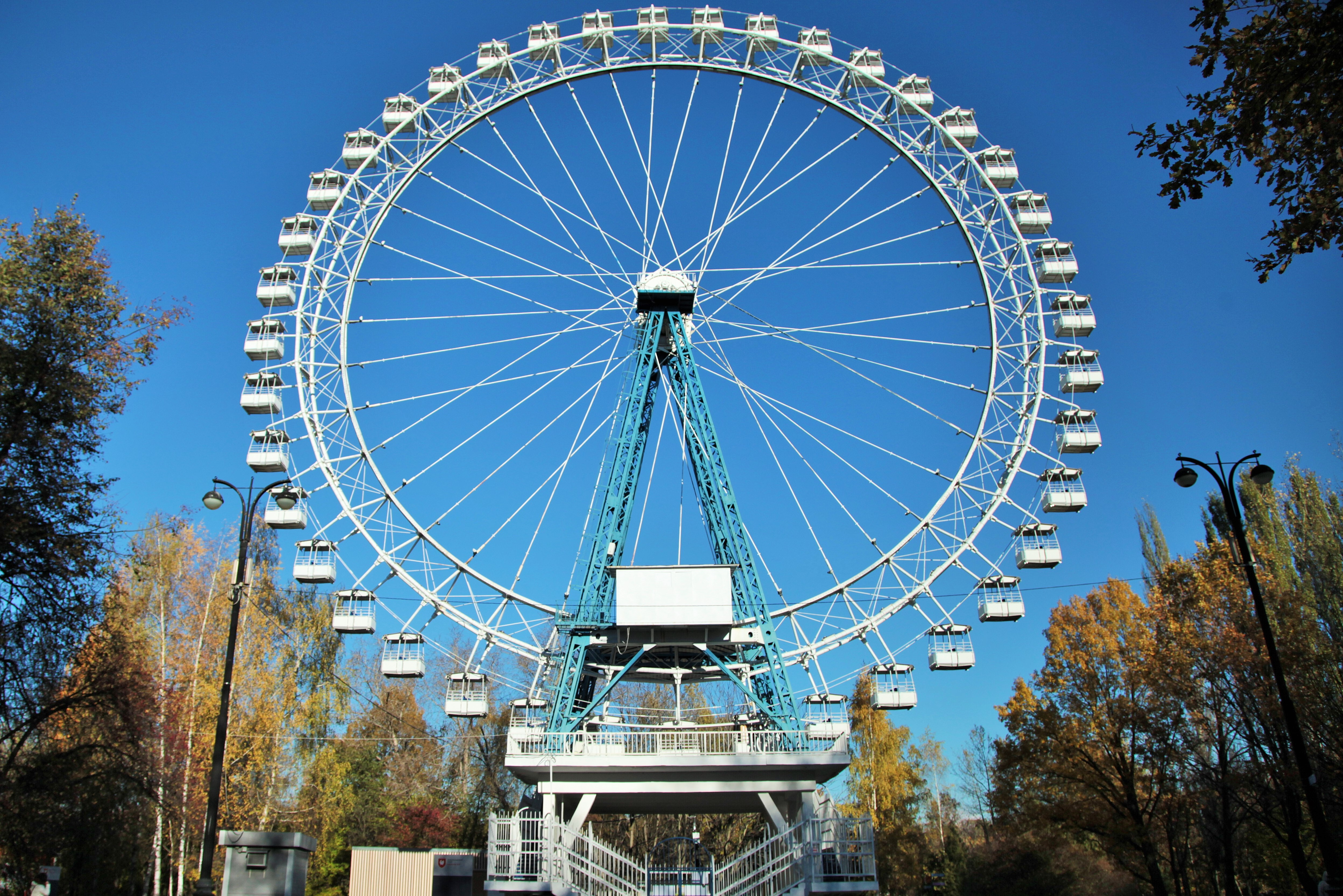 Ferris wheel